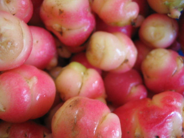 Red Oxalis tuberosa (oca) tubers